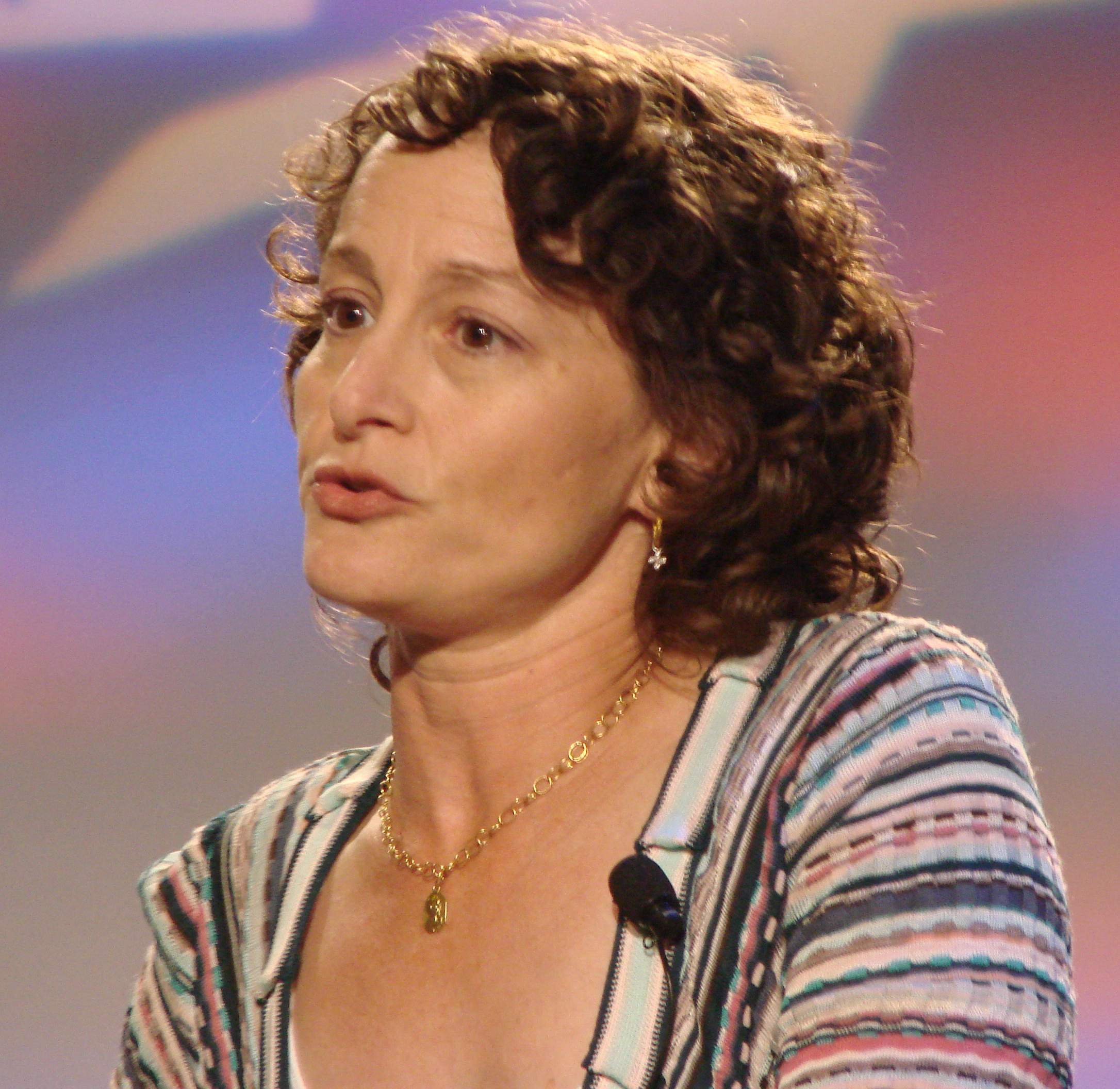 Nina Jacobson photographed at 2006 Out & Equal Workplace Summit.